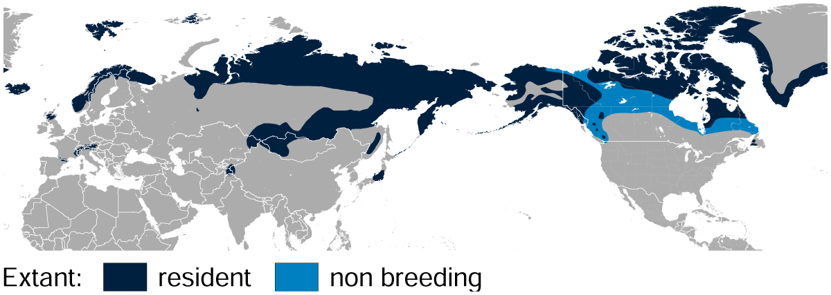 Geographical distribution of the Rock Ptarmigan Lagopus muta. The map was created using the Generic Mapping Tools, GMT, version 5.1.2.